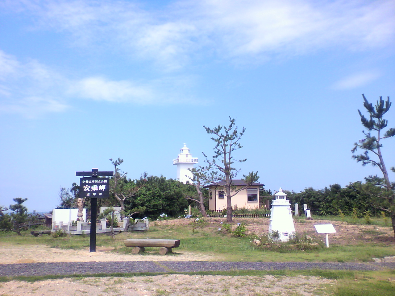 This is a park in Agocho-Anori, Shima, Mie, Japan.